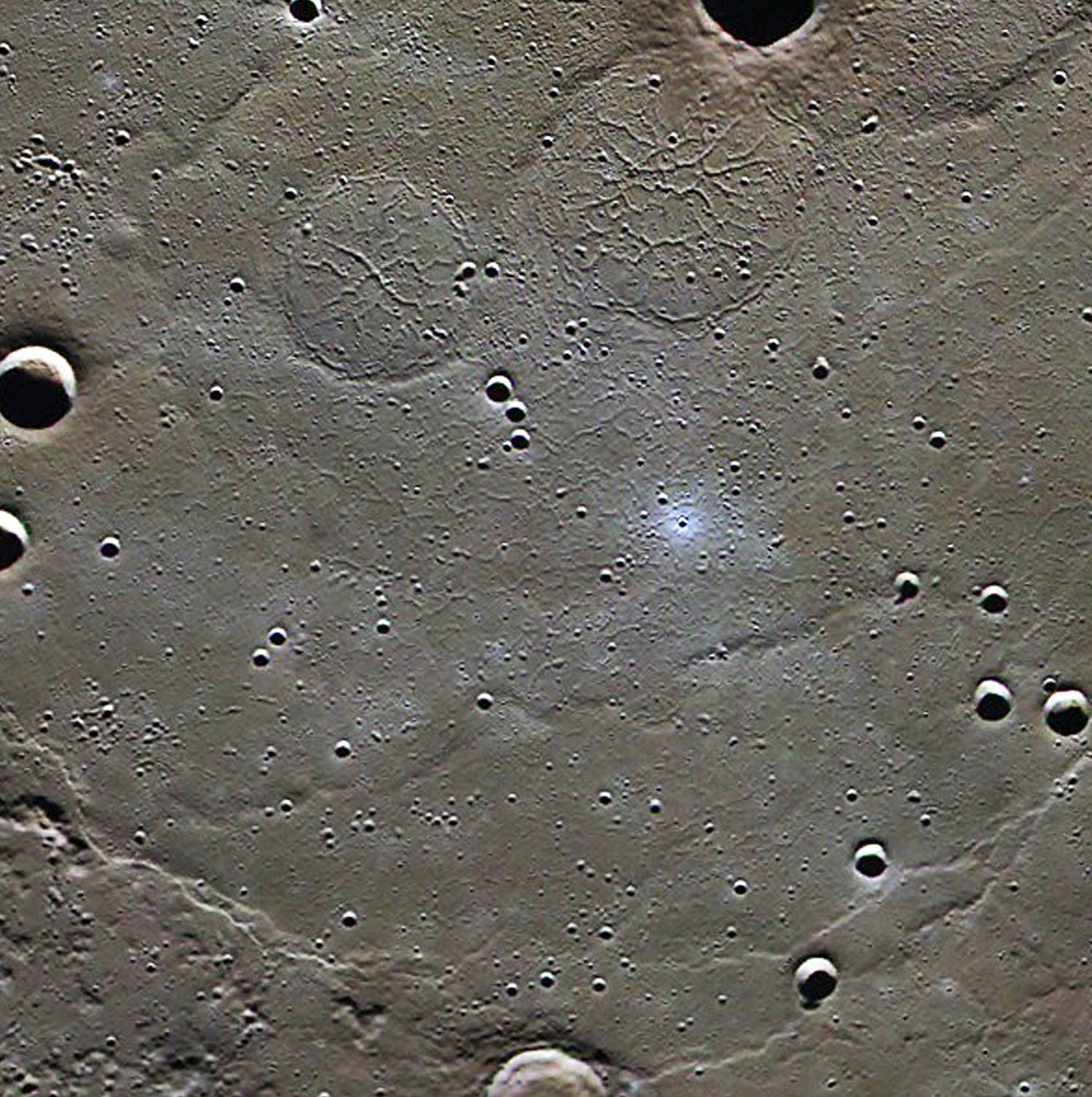 Original description: This image shows the margin of Goethe basin. A wrinkle-ridge ring marks the margin of the nearly completely buried basin. Graben are found within two interior ridge rings and throughout the basin fill material. Instrument: Mercury Dual Imaging System (MDIS) Center Latitude: 80.4° Center Longitude: 308.1° E Scale: This image is about 250 kilometers (155 miles) across